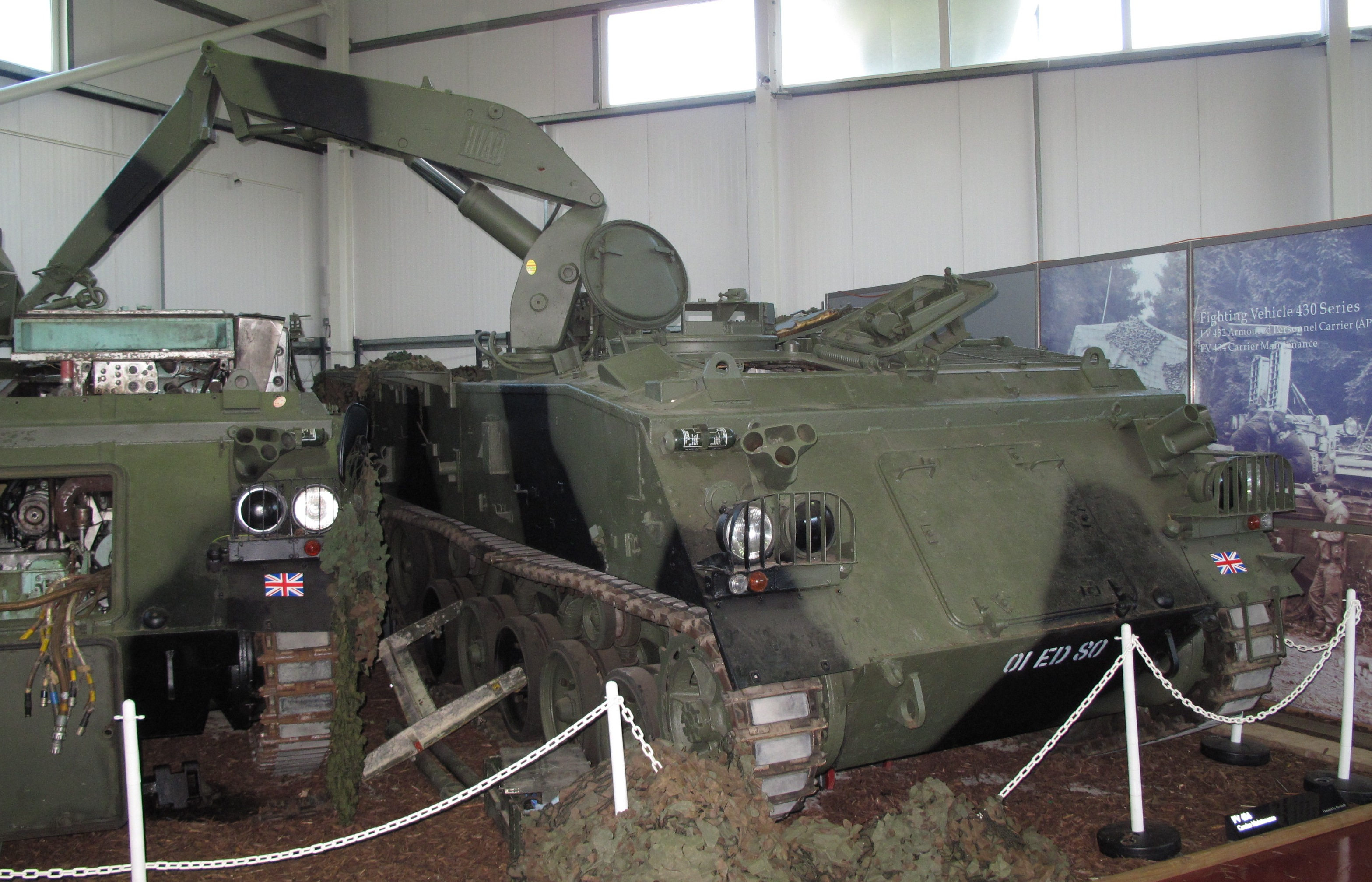 FV434 on diplay at The REME Museum of Technology with its jib extended.